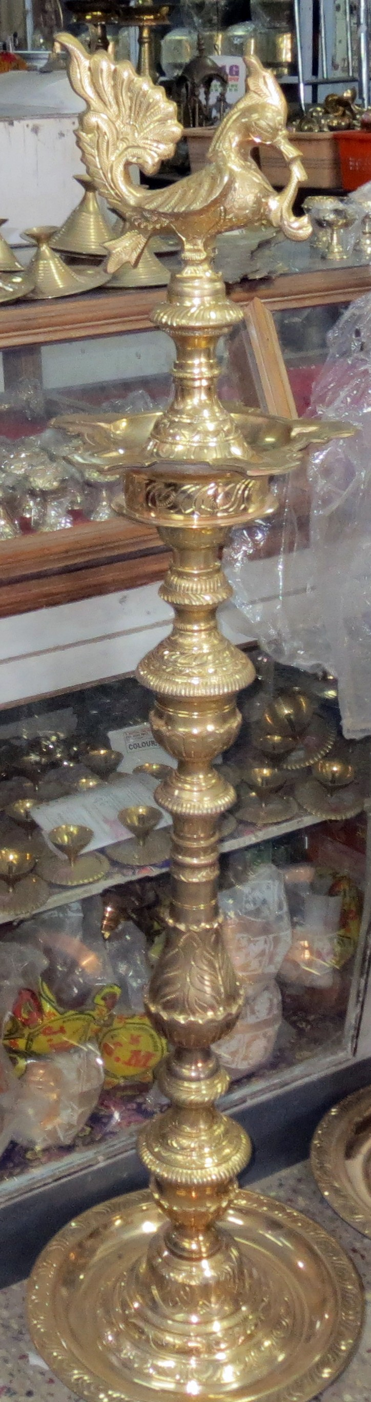 Annapatchimuga kuthuvilakku is a special type kuthuvilakku which has its face as a swan. Tamil:அன்னபட்சிமுக குத்துவிளக்கு.